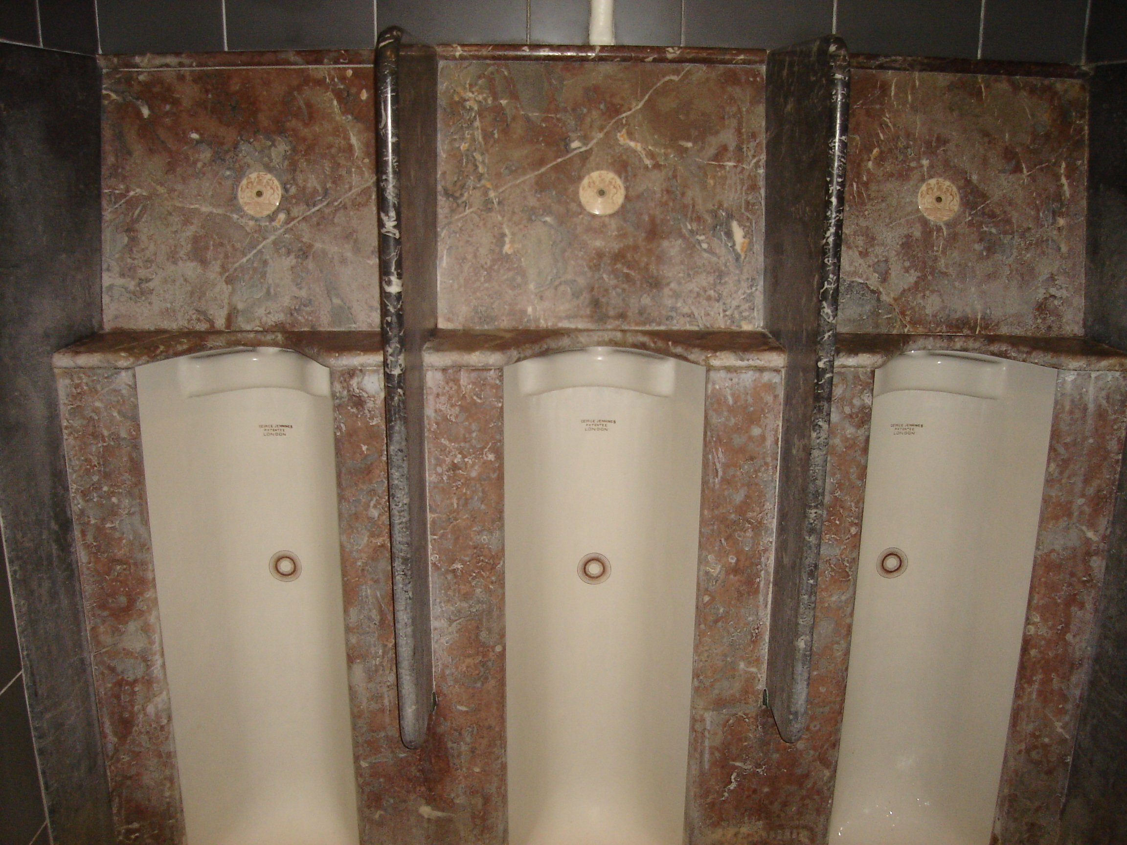 Victorian urinals at the Windermere hotel at Windermere